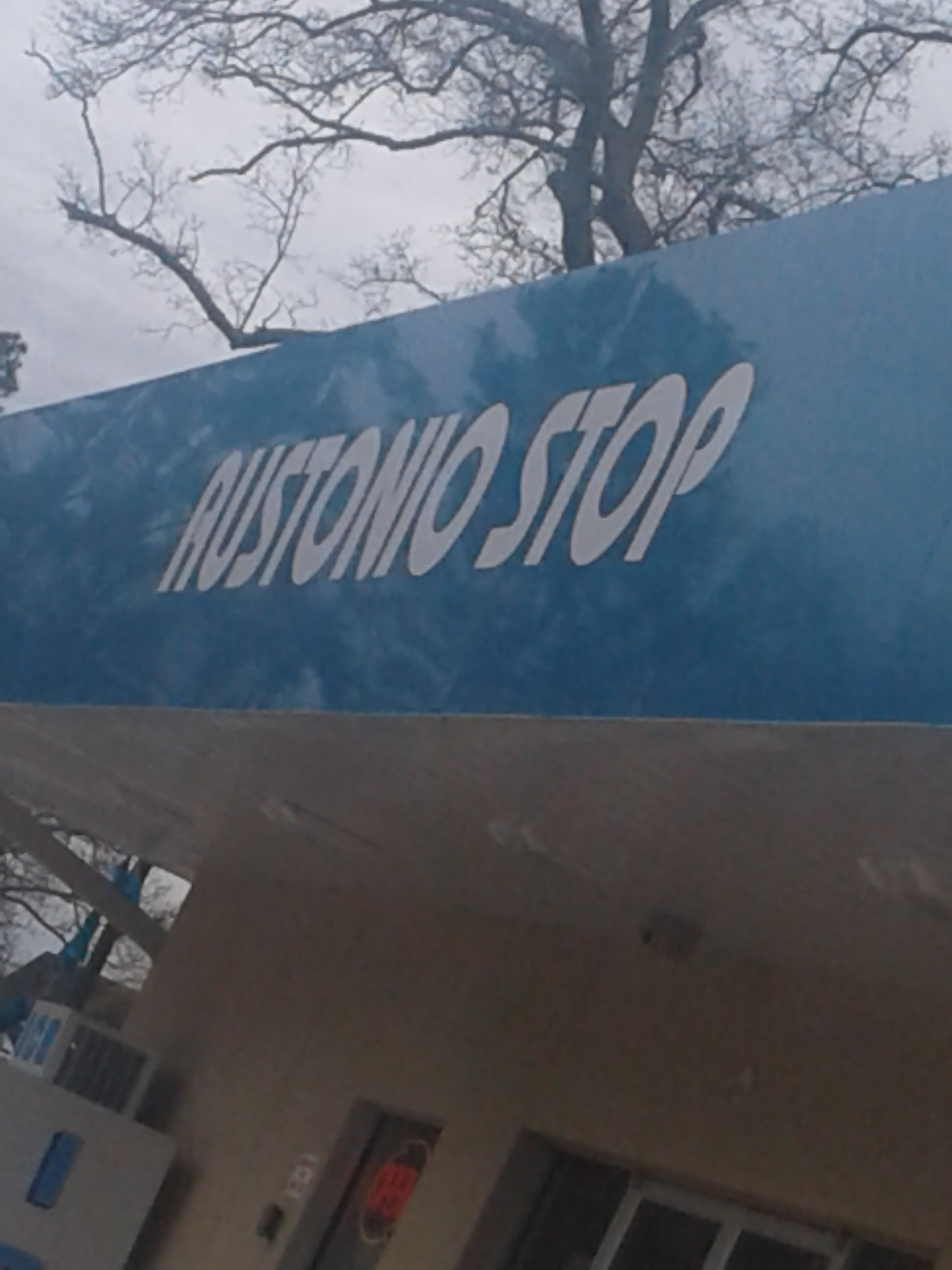 picture of Austonio Stop in Austonio, Texas